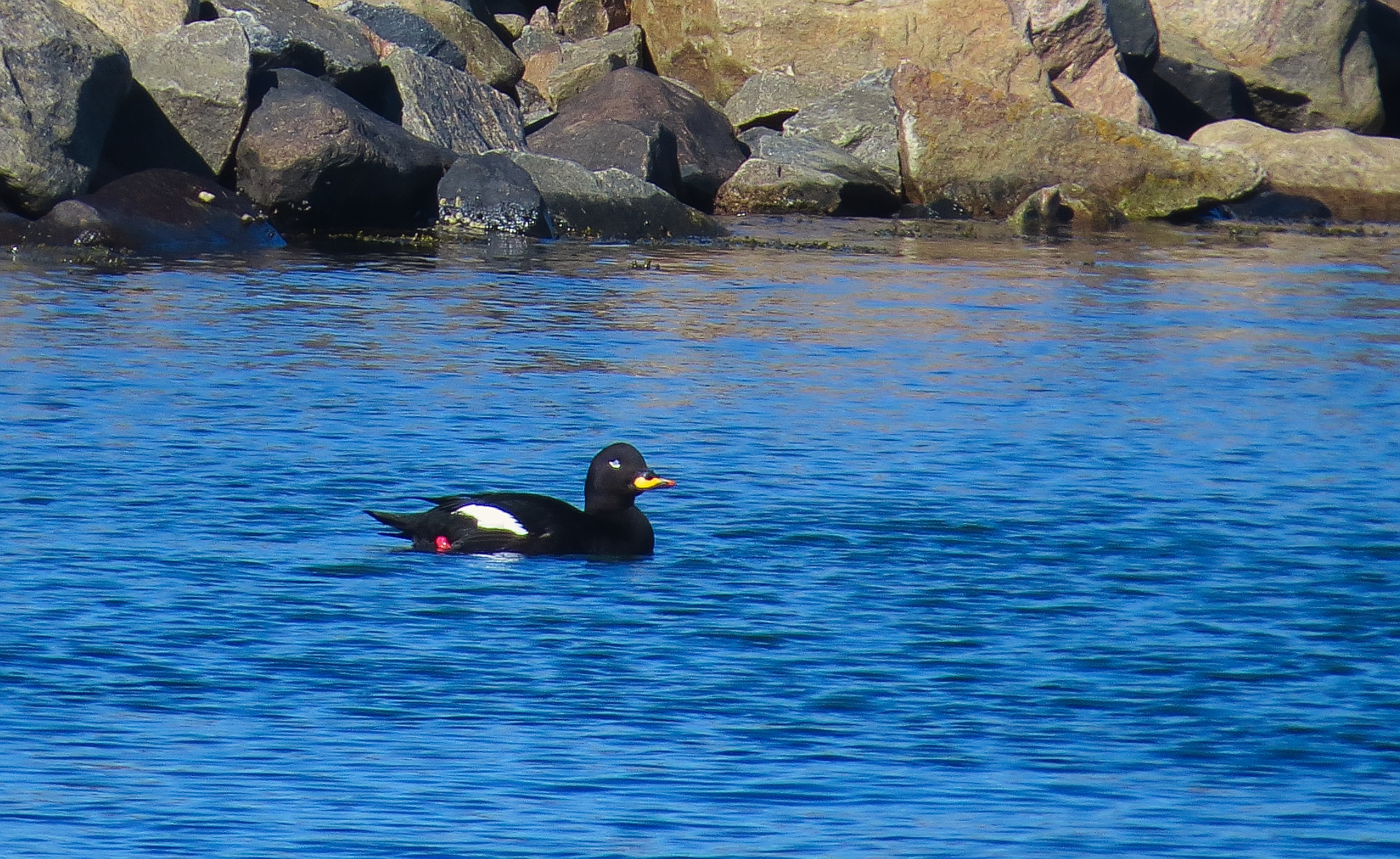 Velvet Scoter Melanitta fusca, Glommens Hamn, Falkenberg, Sweden